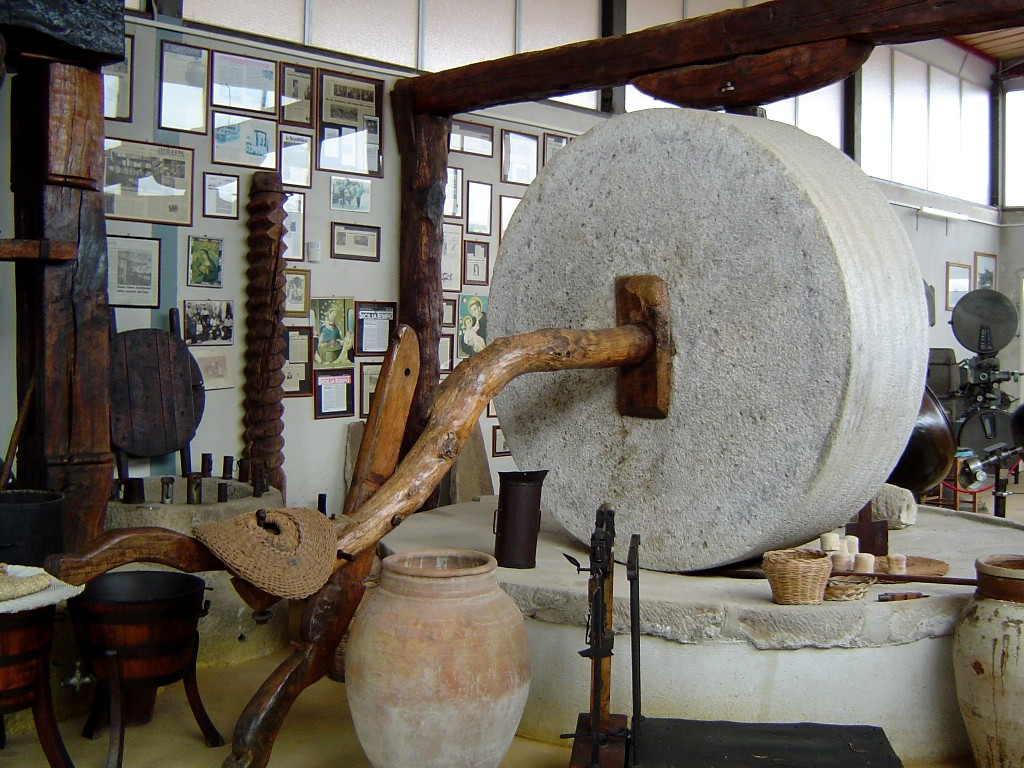 Millstone